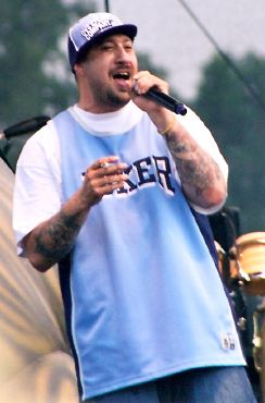 B-Real (Louis Freese) at the Bonnaroo Music Festival in Manchester, Tennessee.